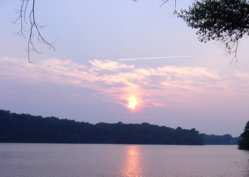 Wildwood Lake, New York. Picture taken by User:Ld